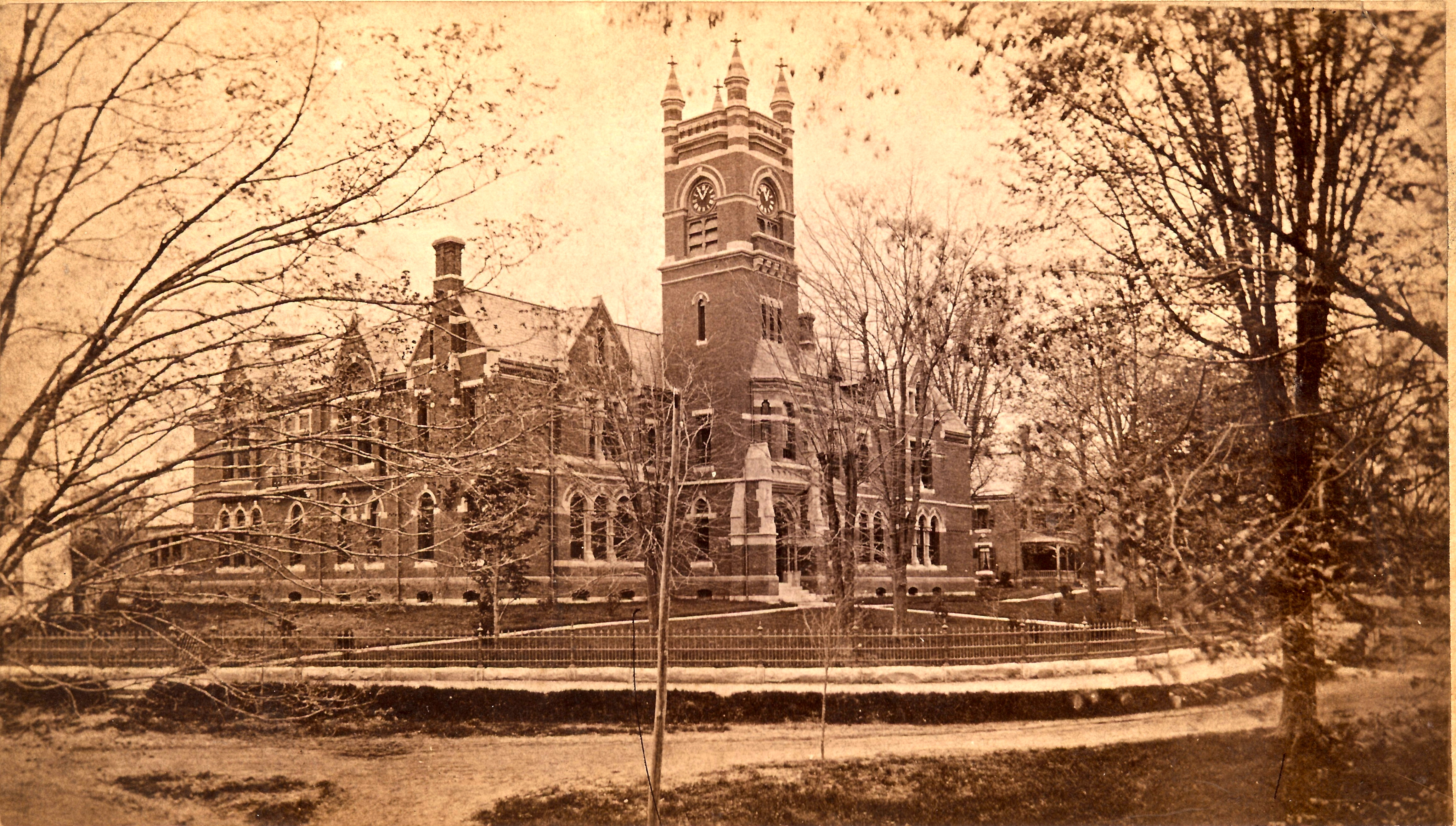 College Hall opened in 1875 as the main building of Smith College. Italian Gothic, eclectic style.